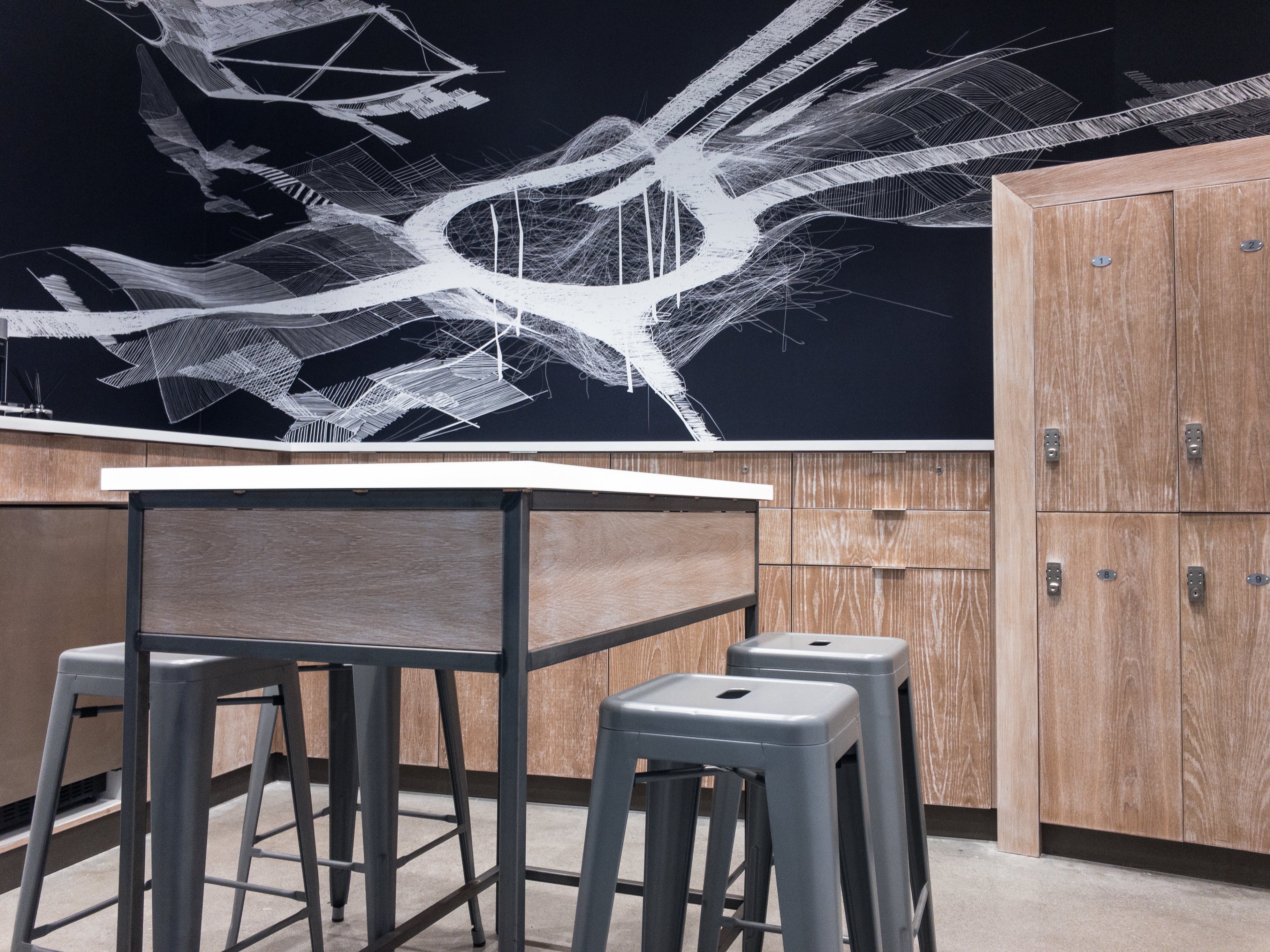 Located in the Time Warner Center, Columbus Circle, New York City